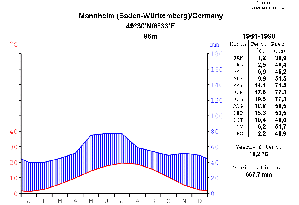 climate chart of Mannheim, Baden-Württemberg, Germany, for the period of time from 1961 to 1990, in the format by Walter and Lieth, metric, °Celsius and millimeters, chart made with Geoklima 2.1, label in English